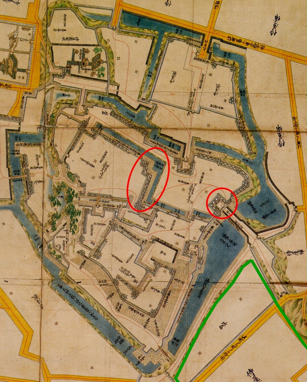 Old Map of Kanasawa castle with Ishikawa-mon and long house marked